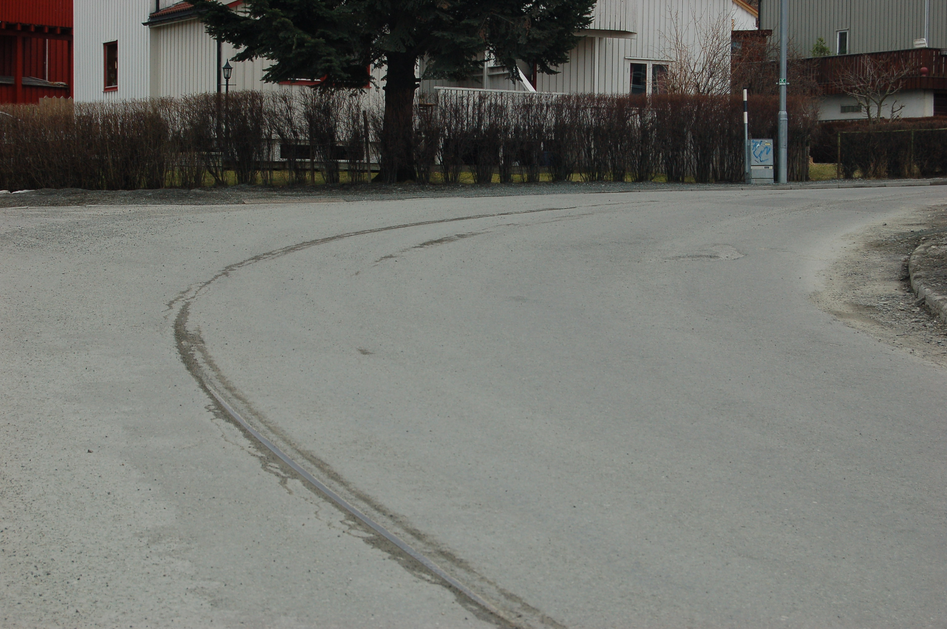 Remains of Singsaker tram line, Trondheim, Norway